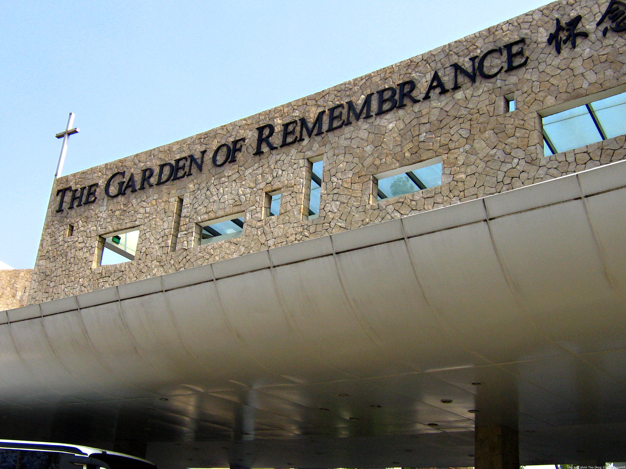 Garden of Remembrance, a private columbarium, in Old Chua Chu Kang, Singapore. Img by Calvin Teo, August 2006